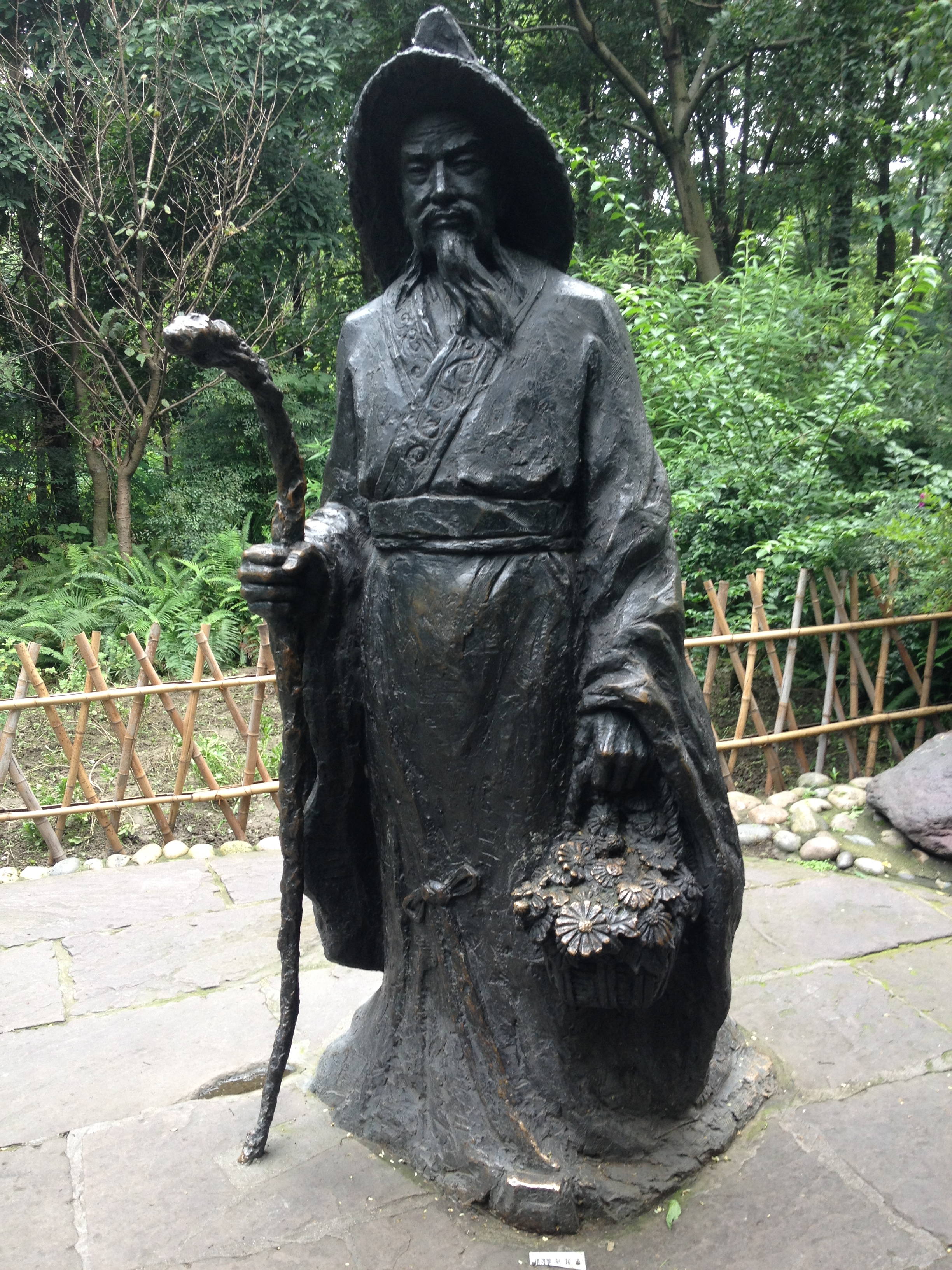 Bronze (?) statue of the Chinese Tang Dynasty poet Du Fu (c. 712 - 770) in Chengdu, Sichuan, China.